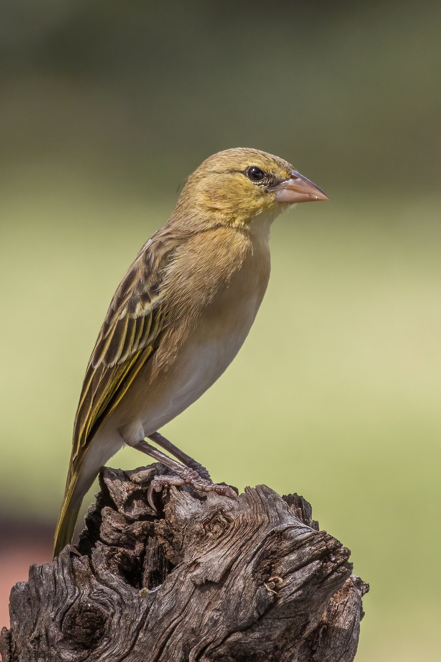 Northern masked weaver (Ploceus taeniopterus), female, Lake Baringo, Kenya.